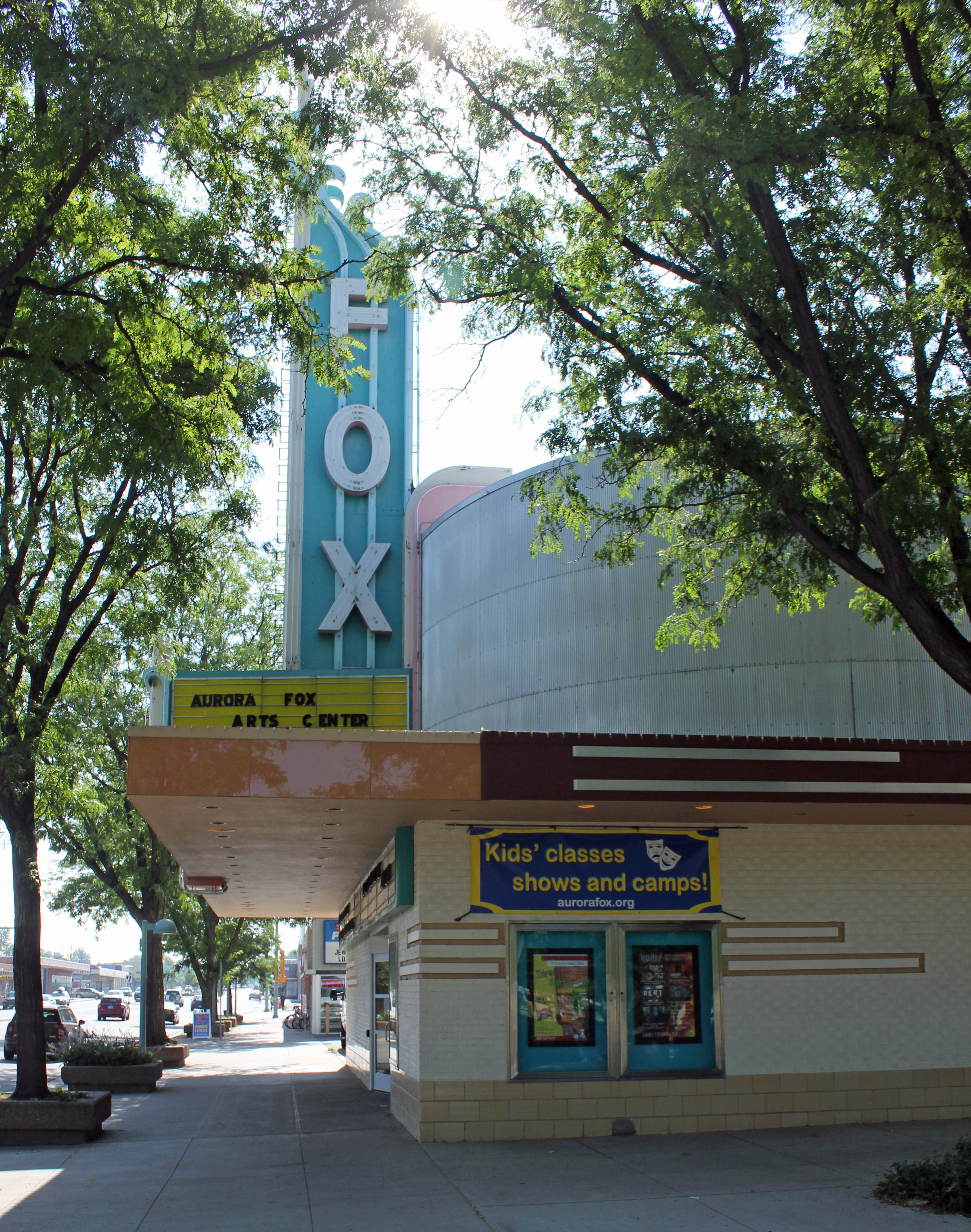 The Aurora Fox Arts Center, located at 9900 East Colfax Avenue in Aurora, Colorado.